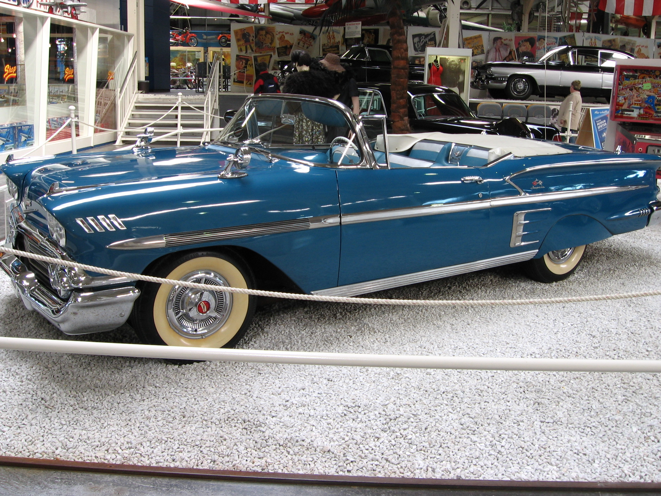 Chevrolet Impala from 1958 at the Auto- und Technikmuseum Sinsheim / Germany. Picture taken in may 2006 by Christian Kath (me).